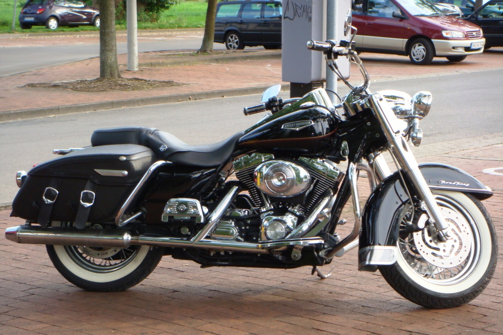 From Avsharyan 6